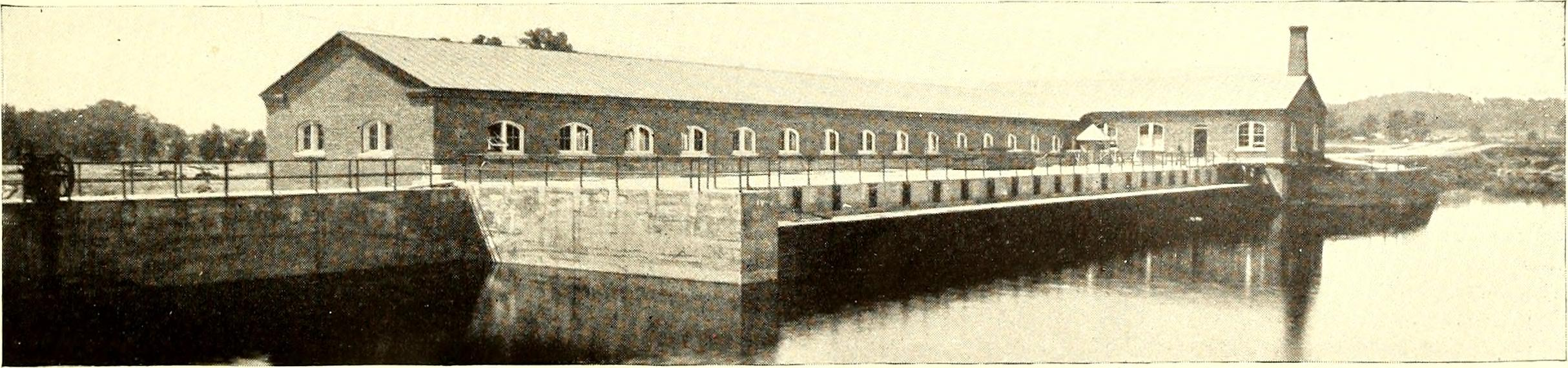 Exterior of the Mechanicville New York Hydroelectric plant in 1898. National Register of Historic Places #89001942